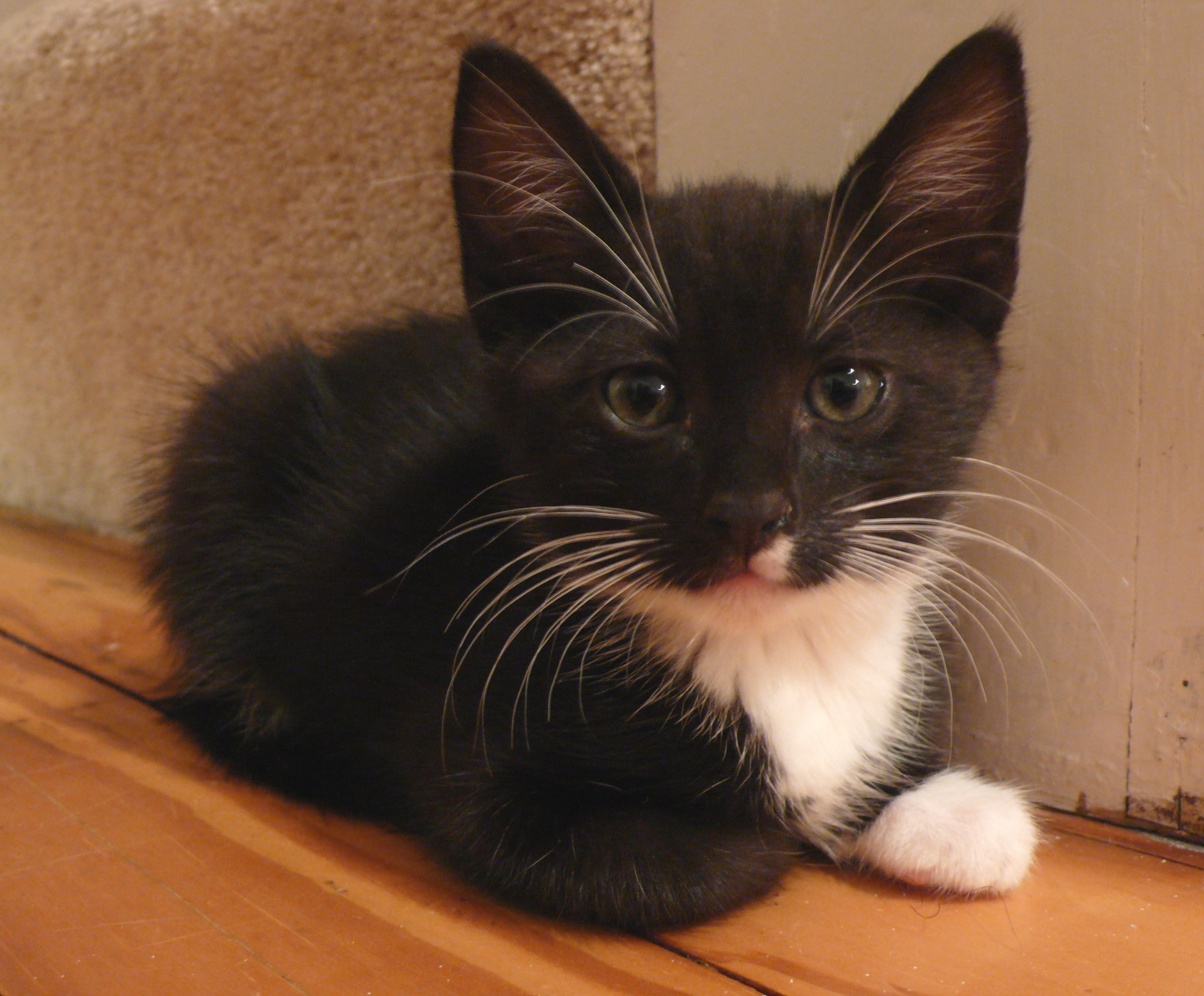 Kitten of six weeks age, tuxedo markings.